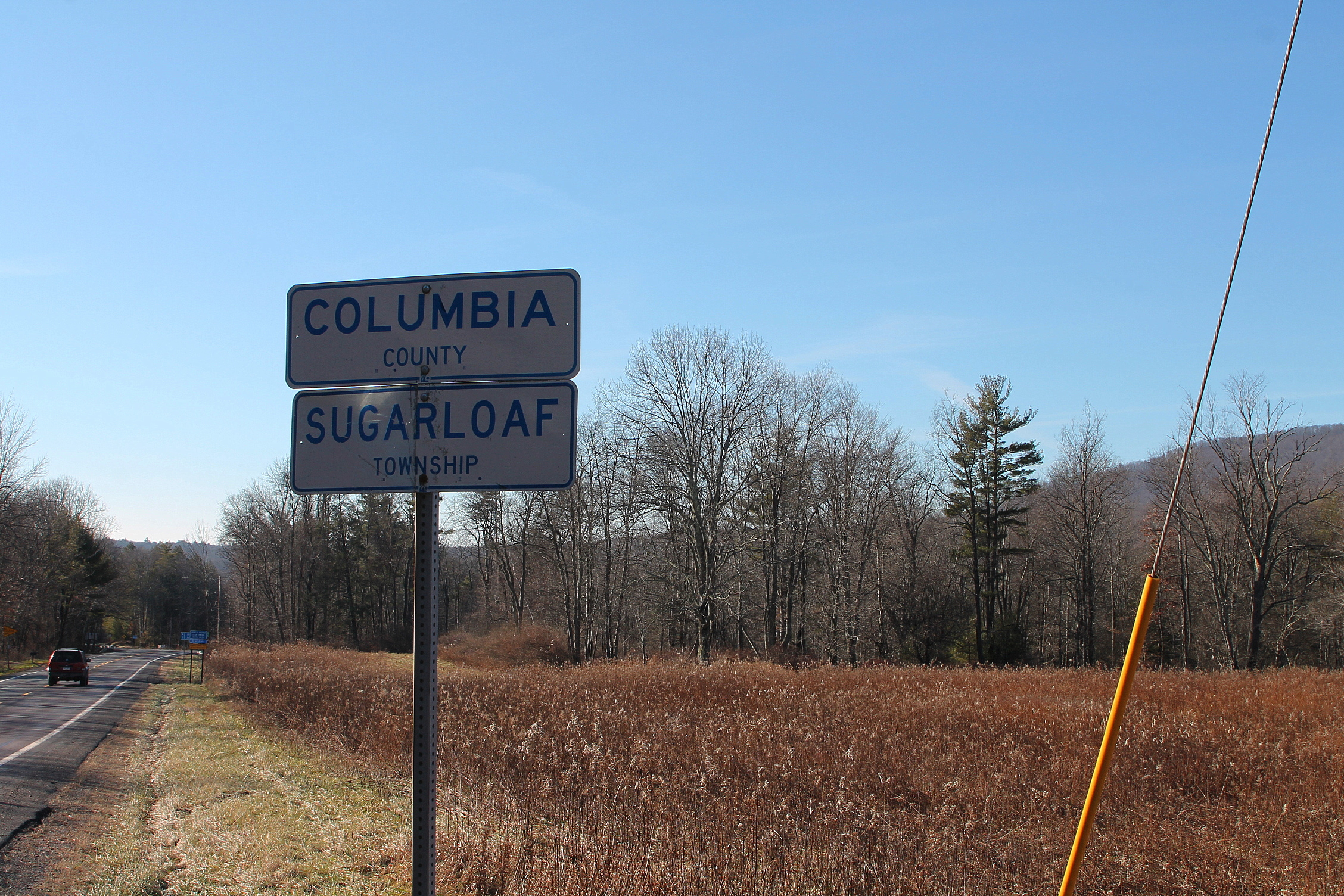 Columbia-Luzerne County line on Pennsylvania Route 118